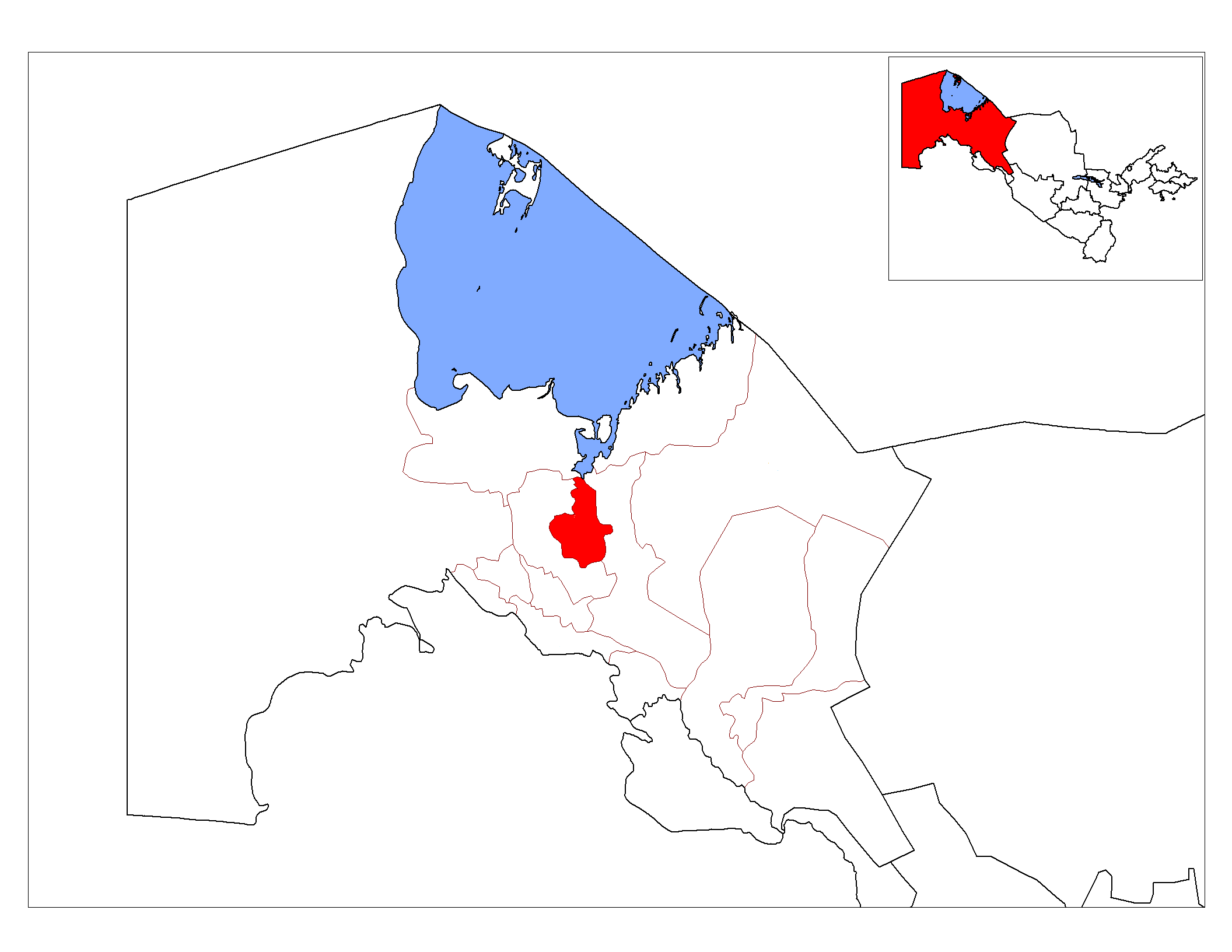 Location of Chimboy Disrict in Qoraqalpog’iston.